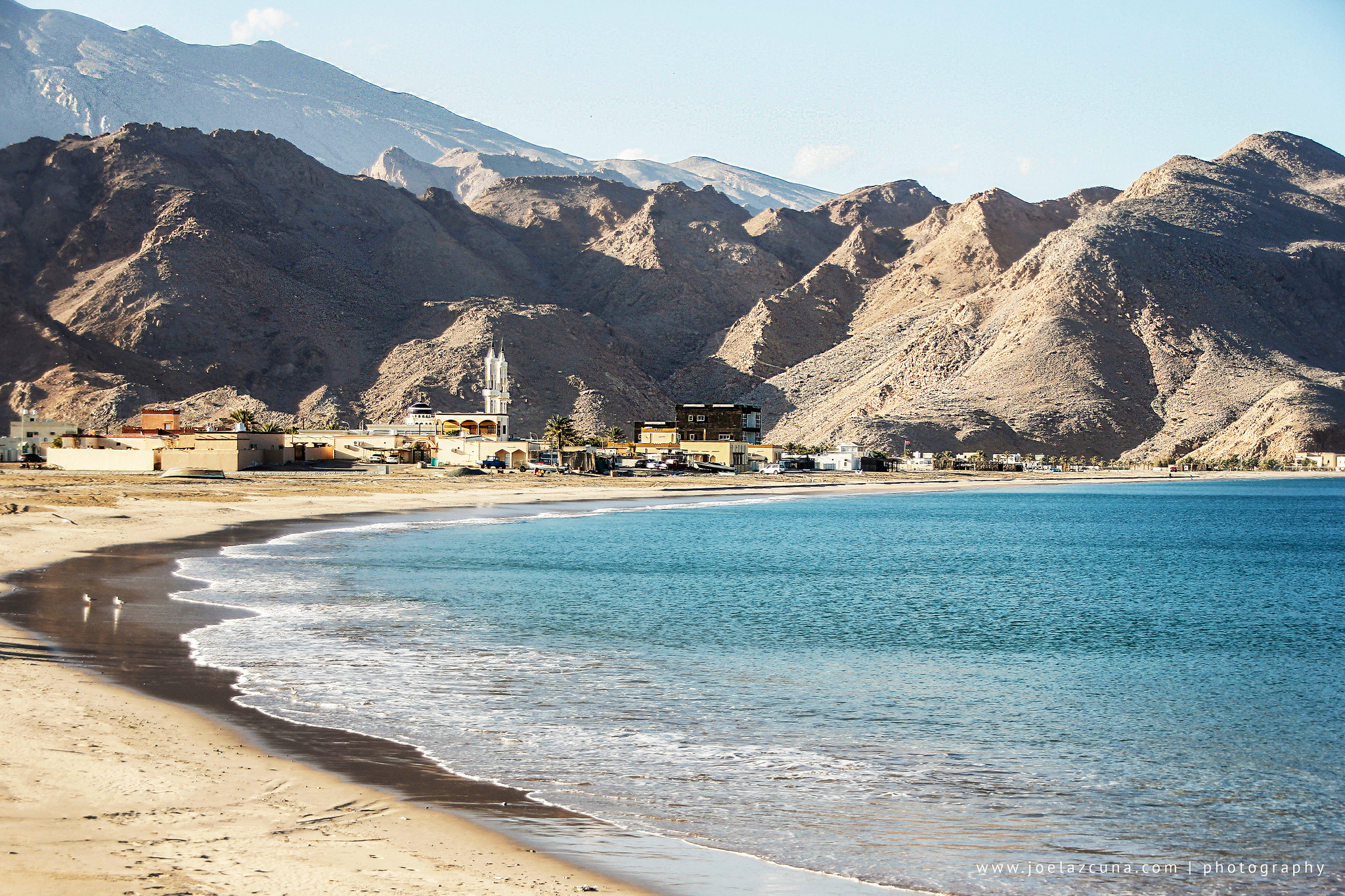 Shoreline is near Dibba port where dhows that sail Musandam are anchored. This is taken somewhere near the UAE/Oman border in Dibba.